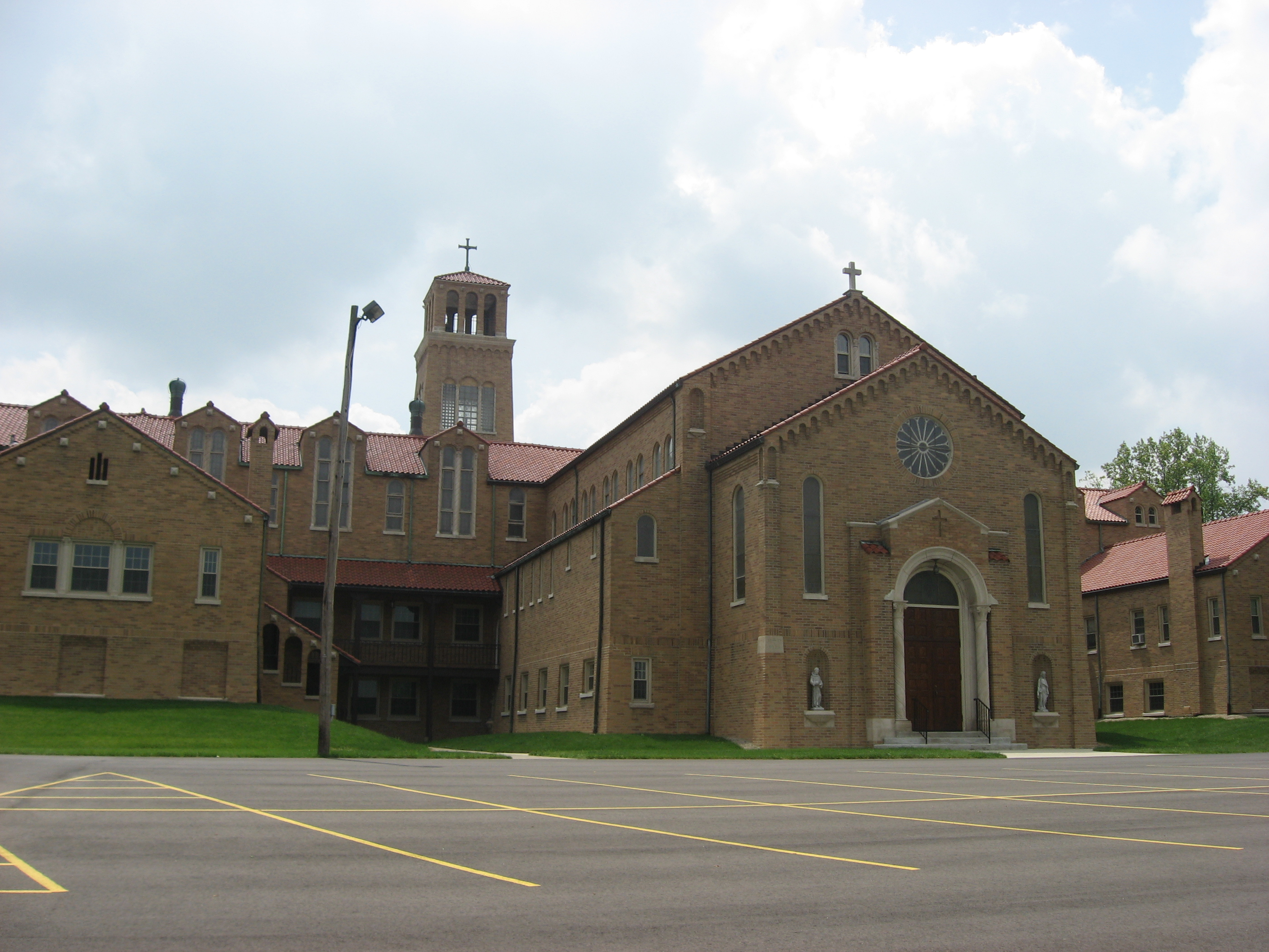 Parking lot view of the former St. Felix Friary, located at 1280 Hitzfield Street in Huntington, Indiana, United States. Built in 1929 and since converted into a place of worship for a congregation of the Church of the United Brethren in Christ, it is part of the Victory Noll-St. Felix Friary Historic District, a historic district that is listed on the National Register of Historic Places.